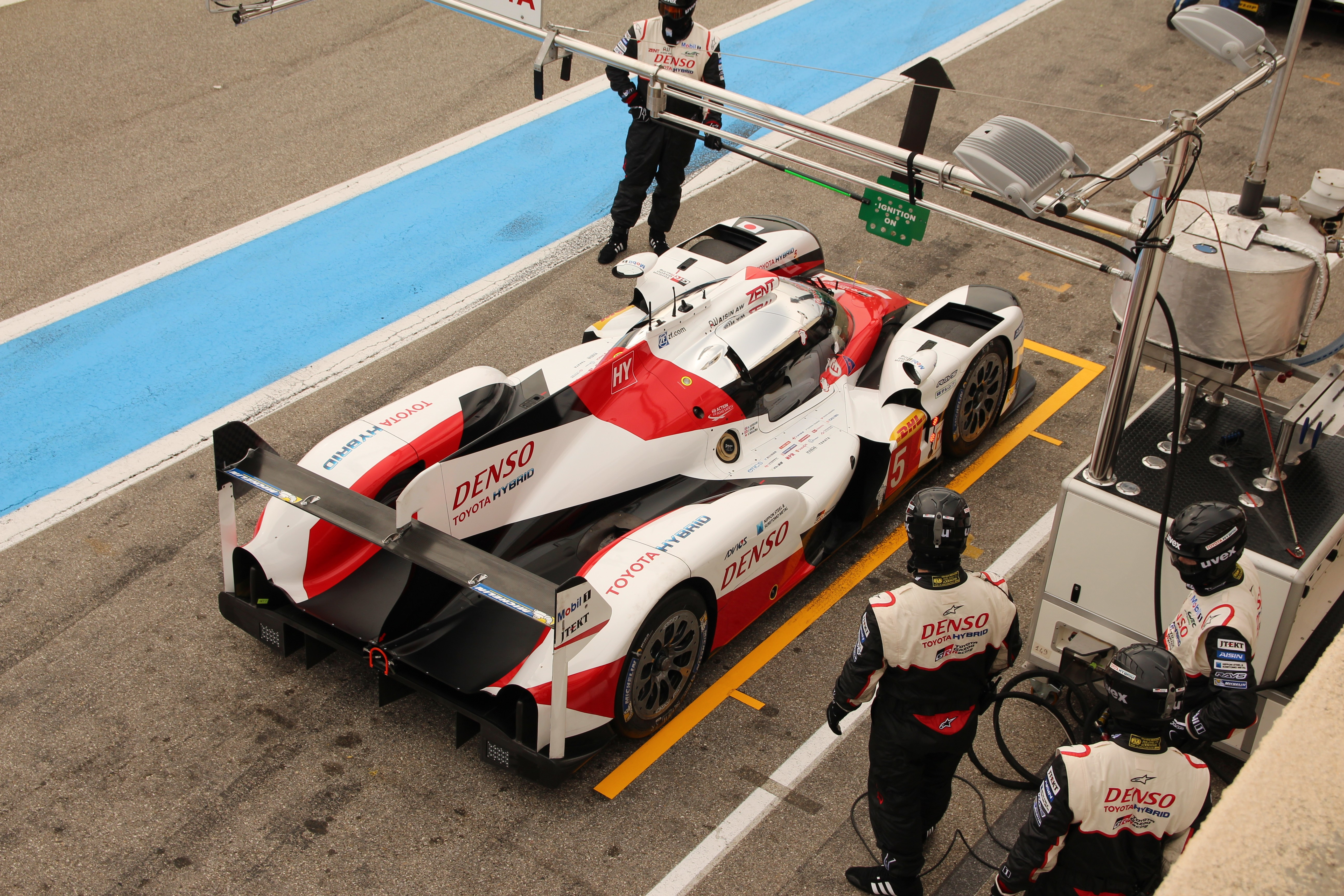 Toyota TS050 Hybrid tests at Circuit Paul Ricard, Le Castellet, France on 25 March 2016